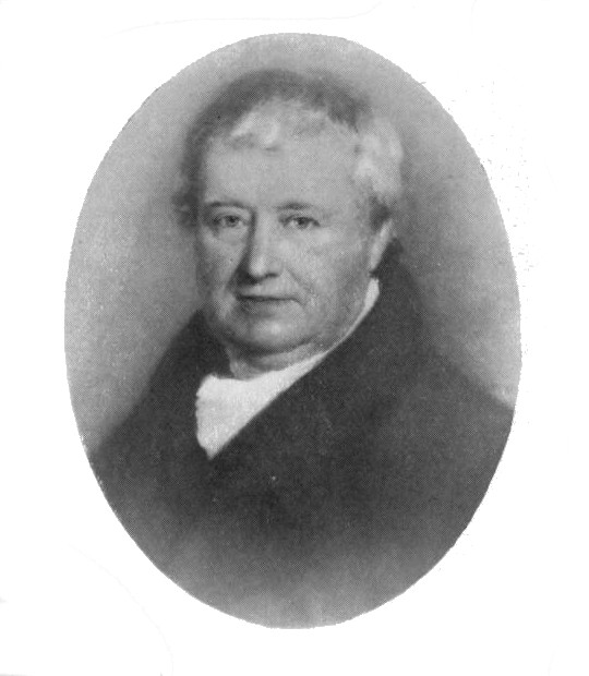 John Veitch (1752-1839), Horticulturist The subject is long-deceased, and the photo was probably taken before 1900 - the photographer is presumably unknown.